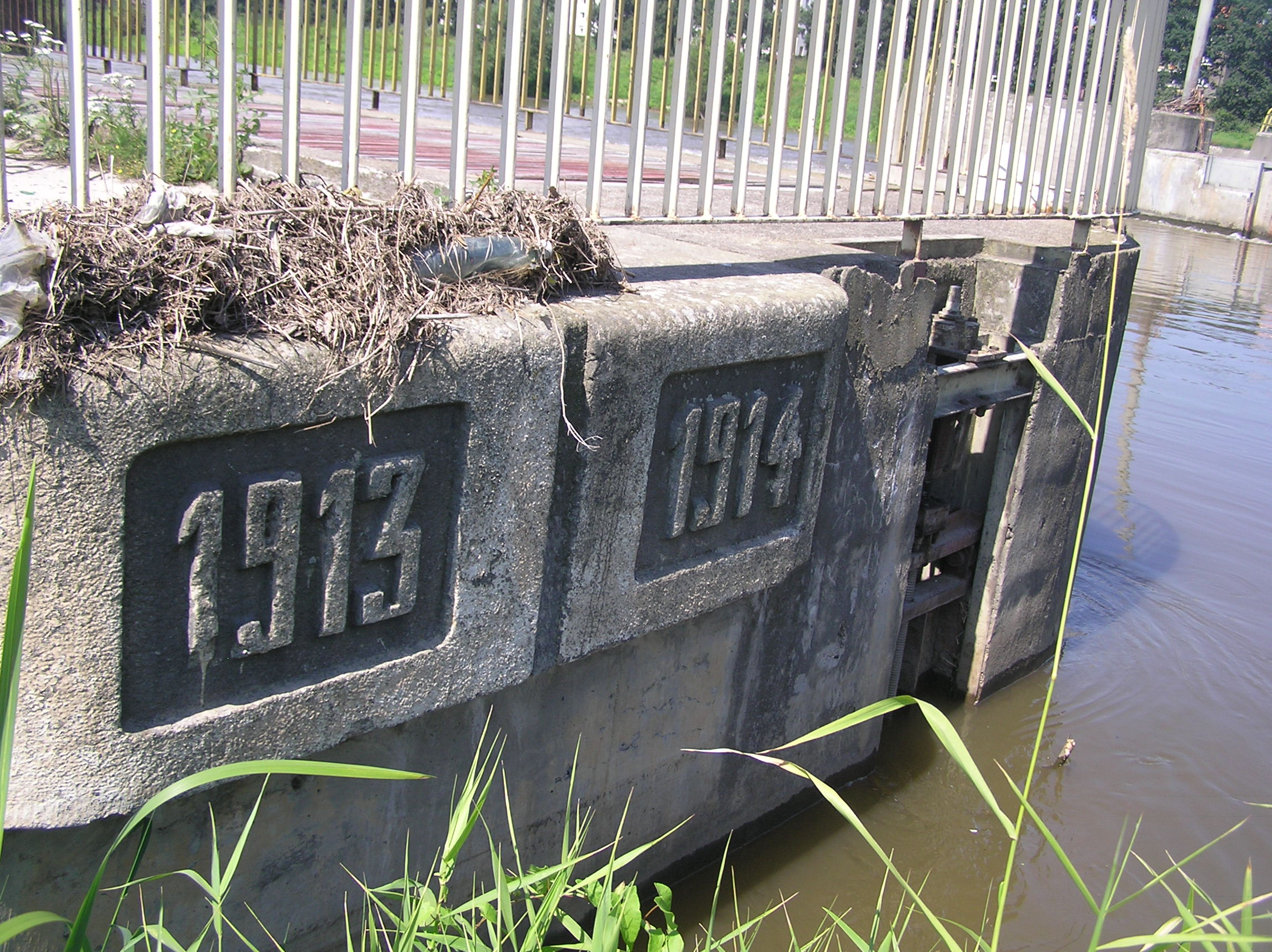 Wrocław, Oder River, Stara Odra, Różanka weir